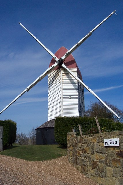 A slightly older but clearer picture of Argos Hill windmill